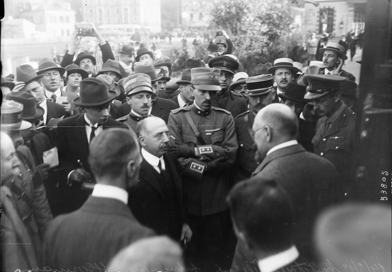 14/5/19, arrivée des délégués autrichiens à St Germain[-en-Laye], Renner [chancelier de l'Autriche].